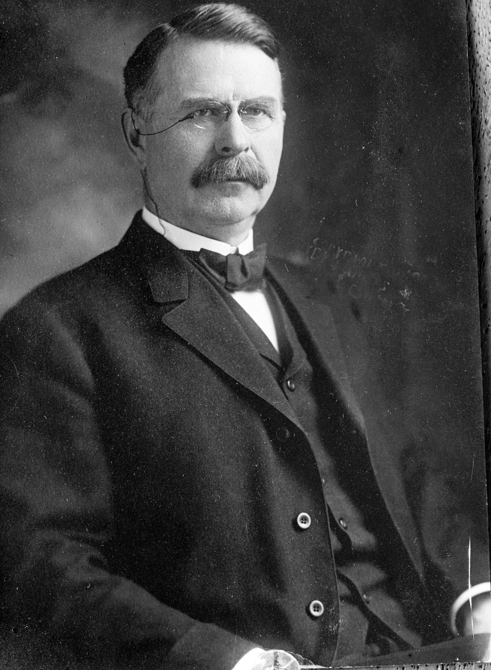 Charles Russell Davis, US Representative from Minnesota